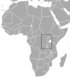 Moon Forest Shrew (Sylvisorex lunaris) range